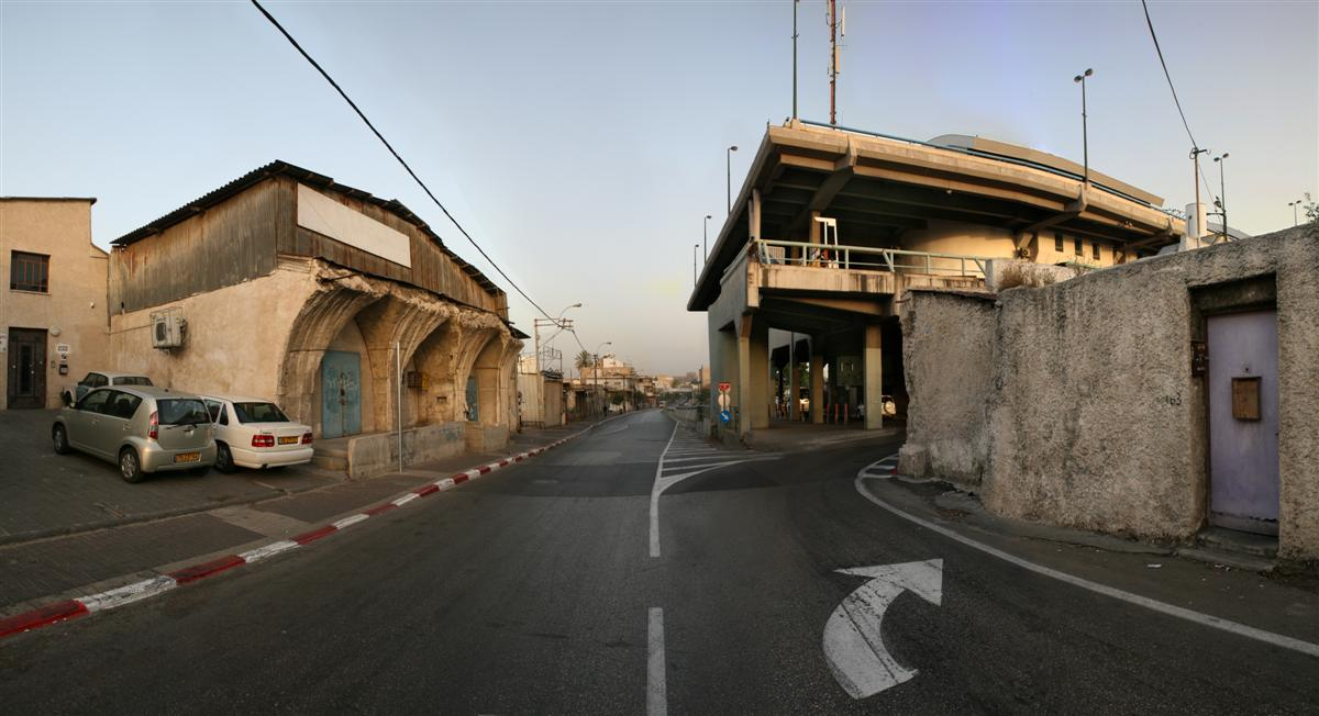 A broken well-house on Salame rd., and the rear part of the Tel Aviv Central Bus Station.